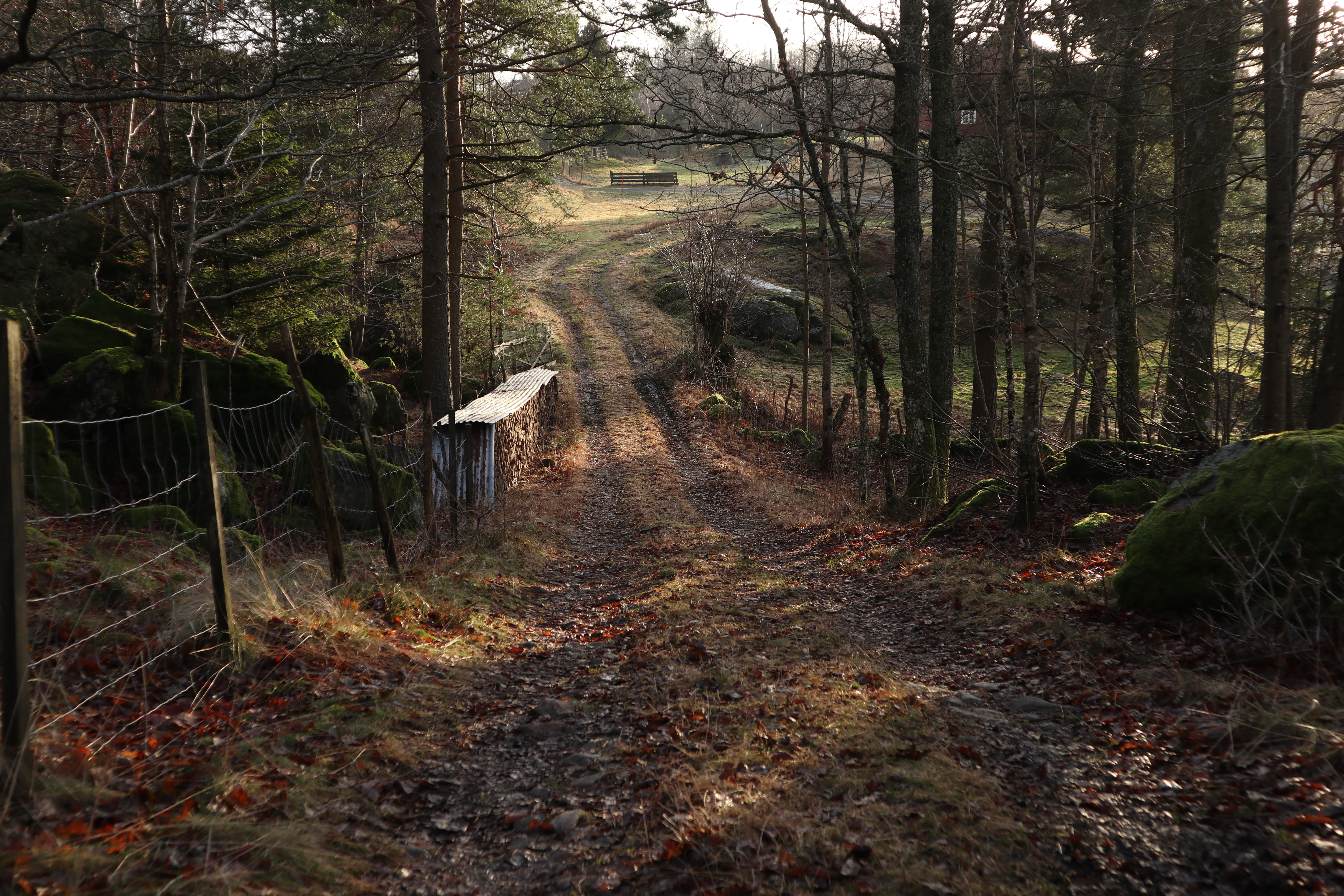 Old road in the middle, trees on the side, farm land in the background